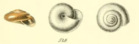 Morlina glabra (Rossmässler, 1835), Oxychilidae, Gastropoda, Mollusca, orig. figure of Rossmässler (1838: pl. 39, fig. 528)